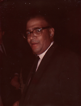 Harry Mills of Mills Brothers, 1966